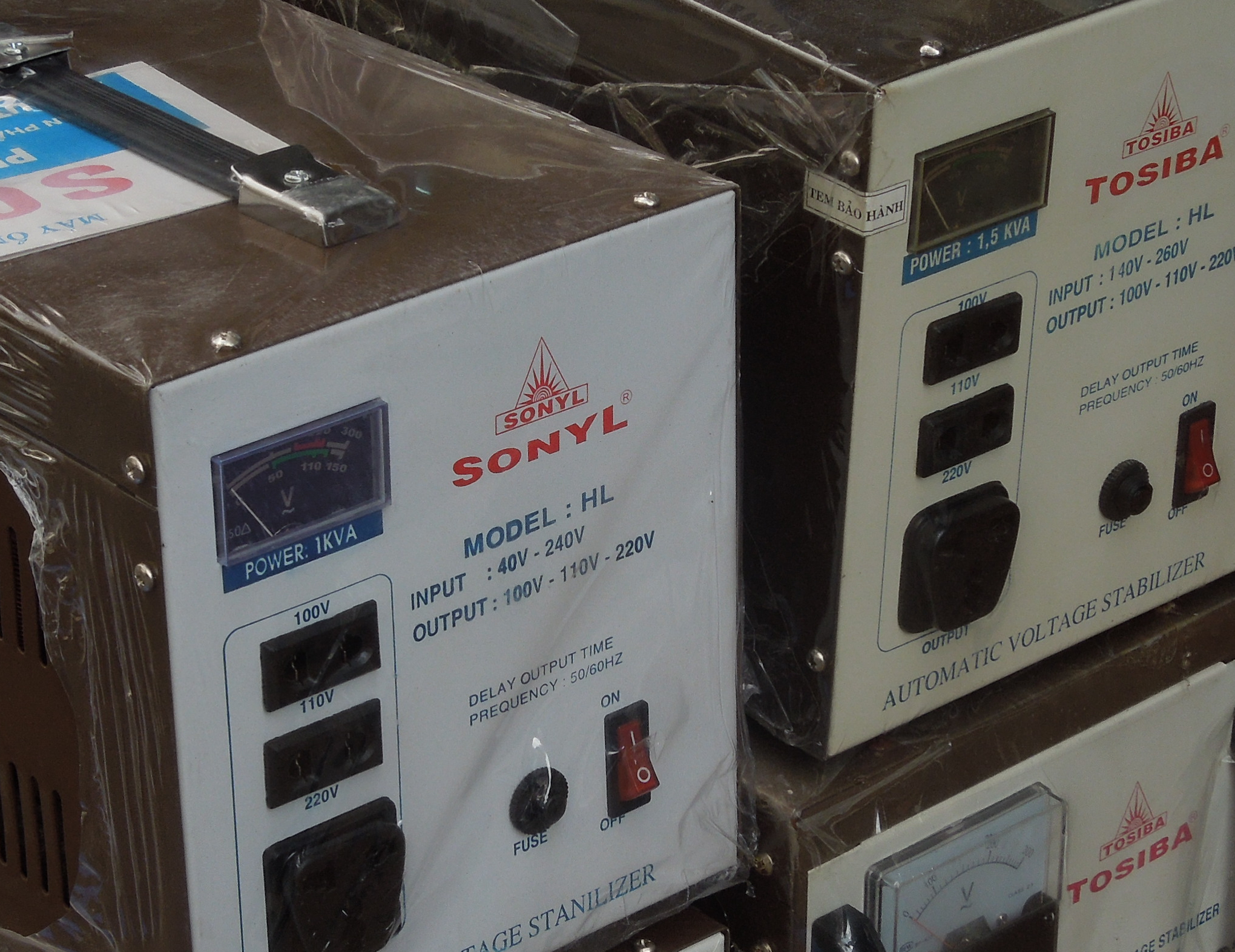 bogus branded power supply stabilizer in Vietnam. SONIL is not a SONY, TOSIBA is not a TOSHIBA.